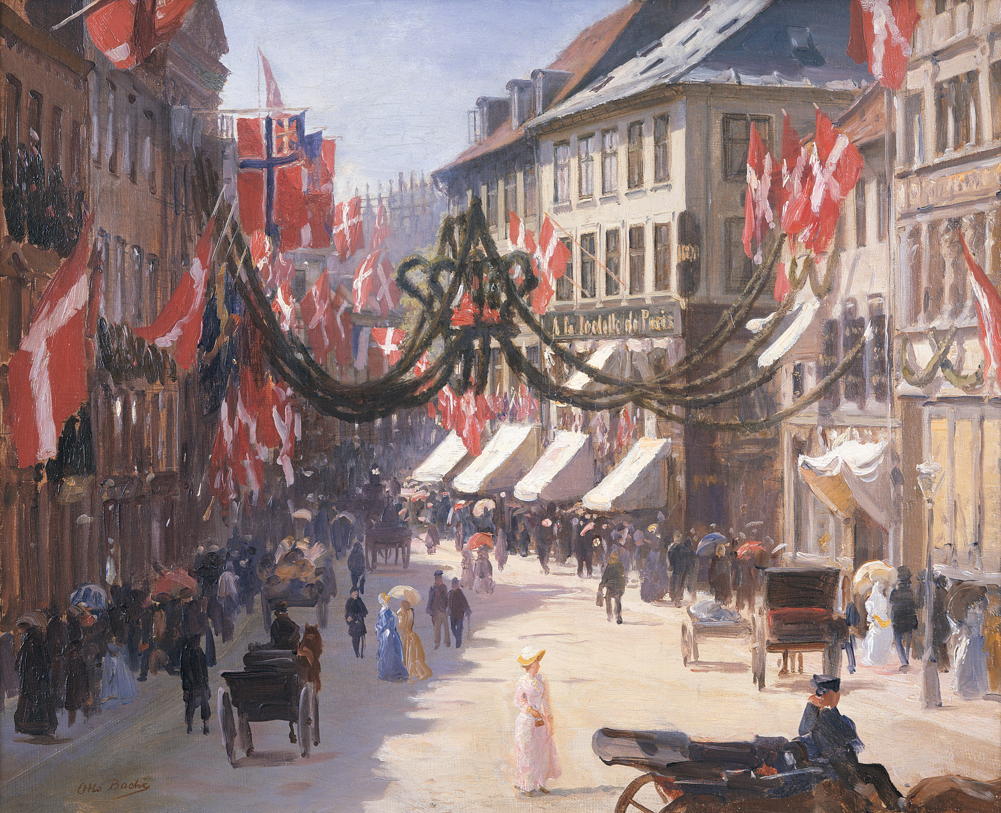 Flag Day in Copenhagen on a Summer Day, in Vimmelskaftet